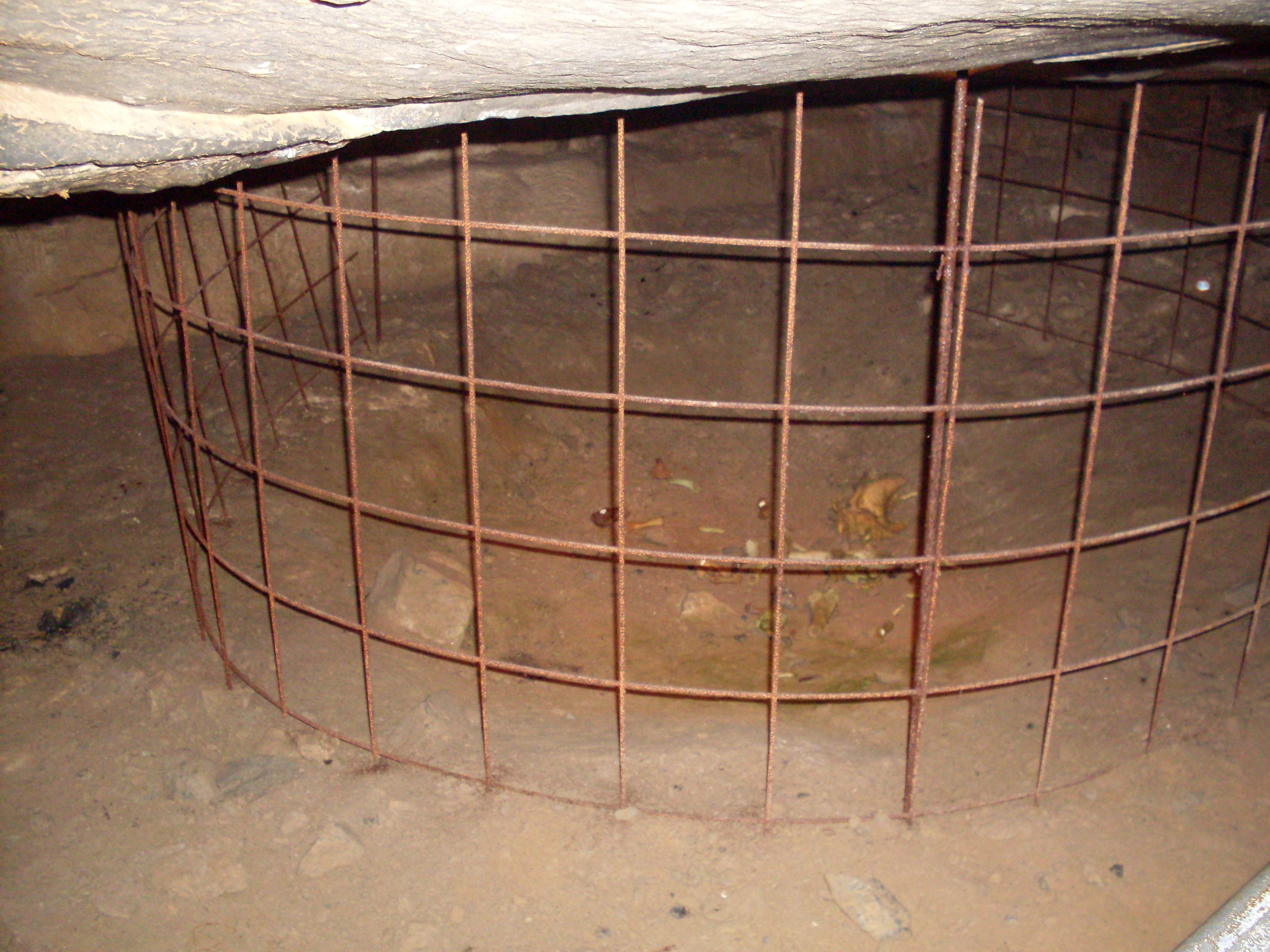 Bones of bear in Aillwee Cave in Burren in Ireland.